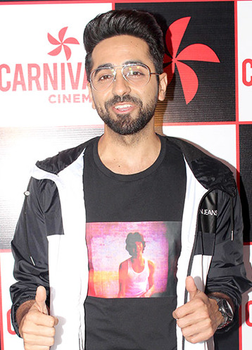 Ayushmann Khurrana at Andhadhun screening in 2018